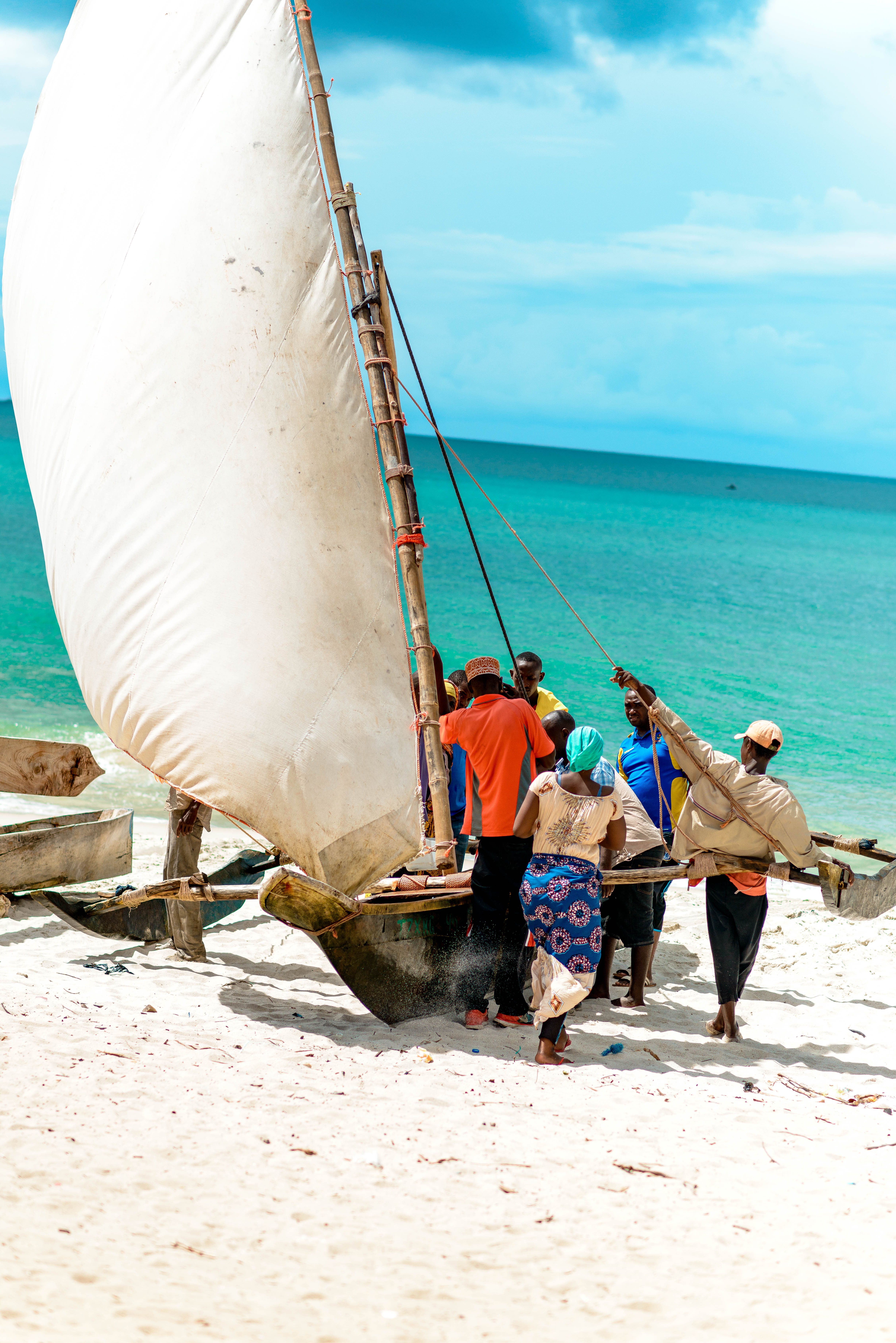 This is an image with the theme "Africa on the Move or Transport" from: Tanzania